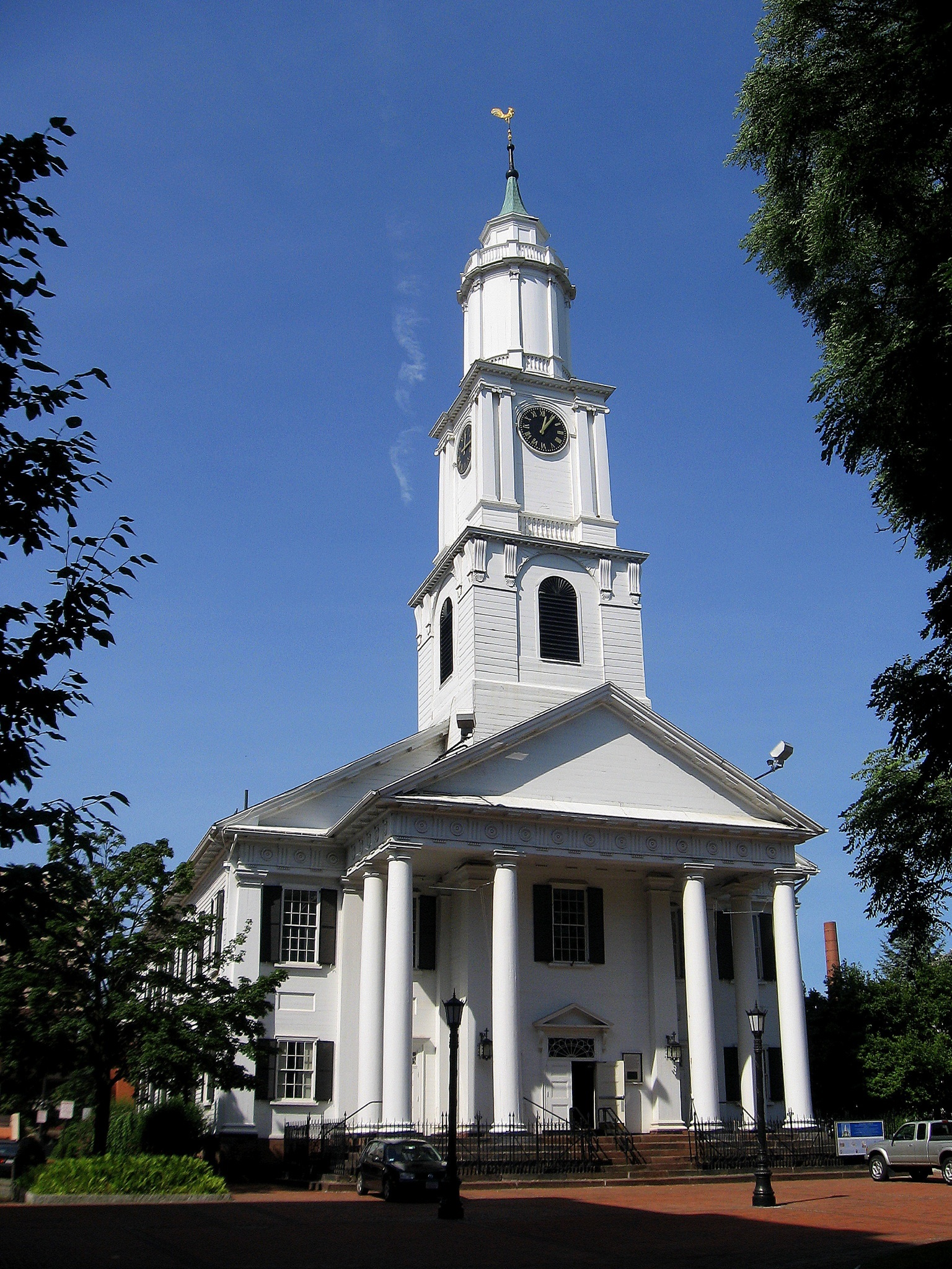 View of Old First Church from Court Square